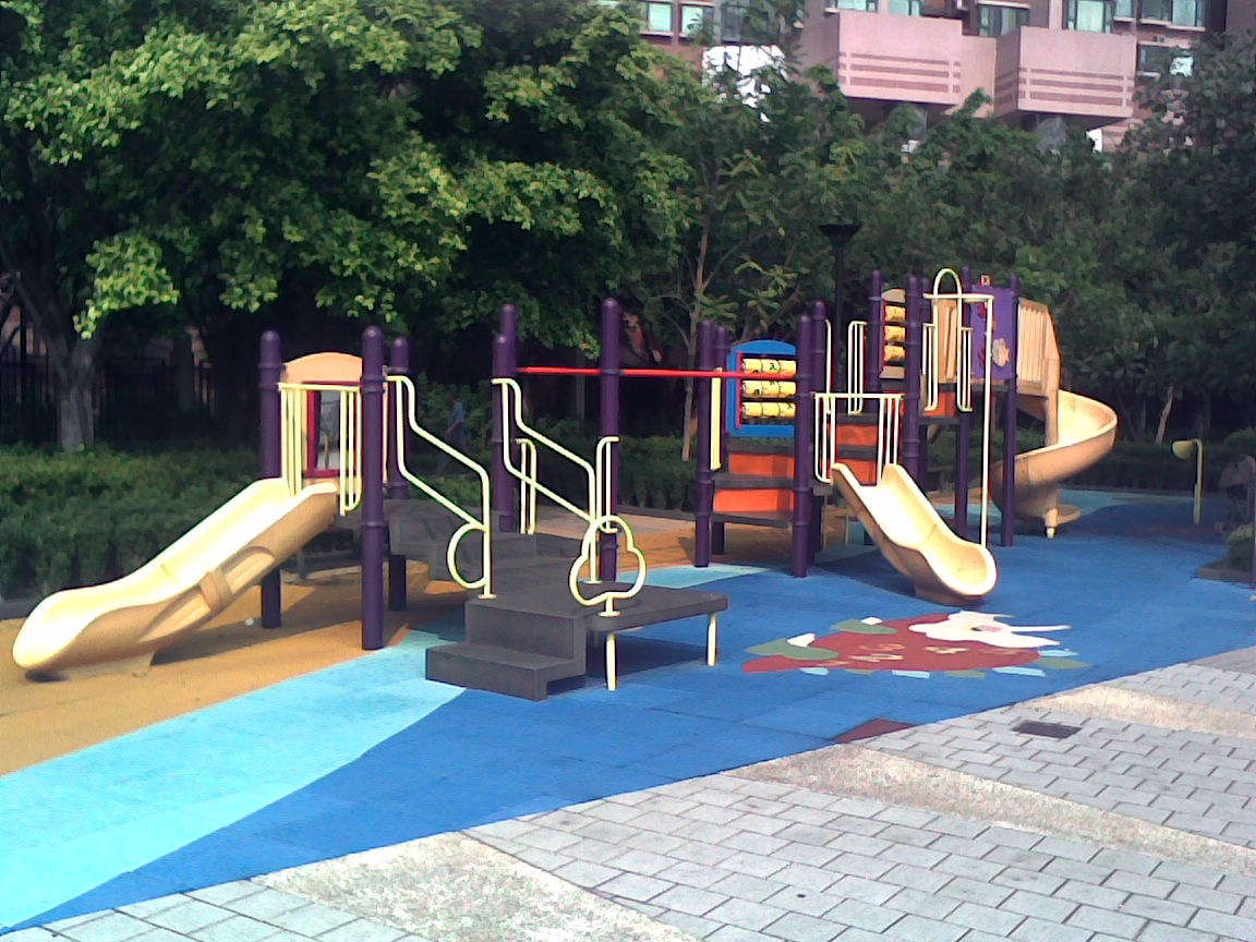 There are several children playgrounds along Tsing Yi Promenade. This is one of them.